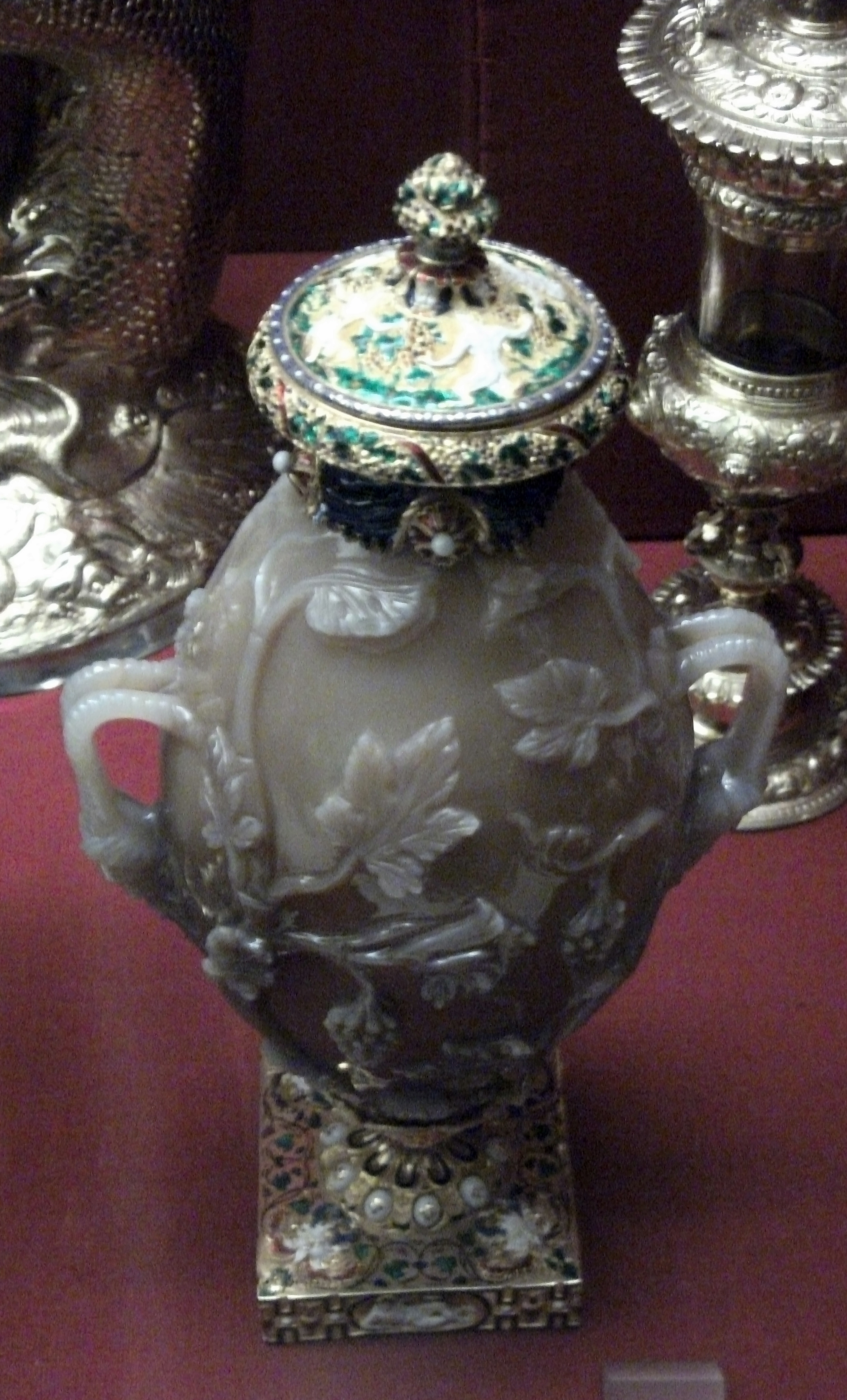 agate vase, Waddesdon bequest, British Museum